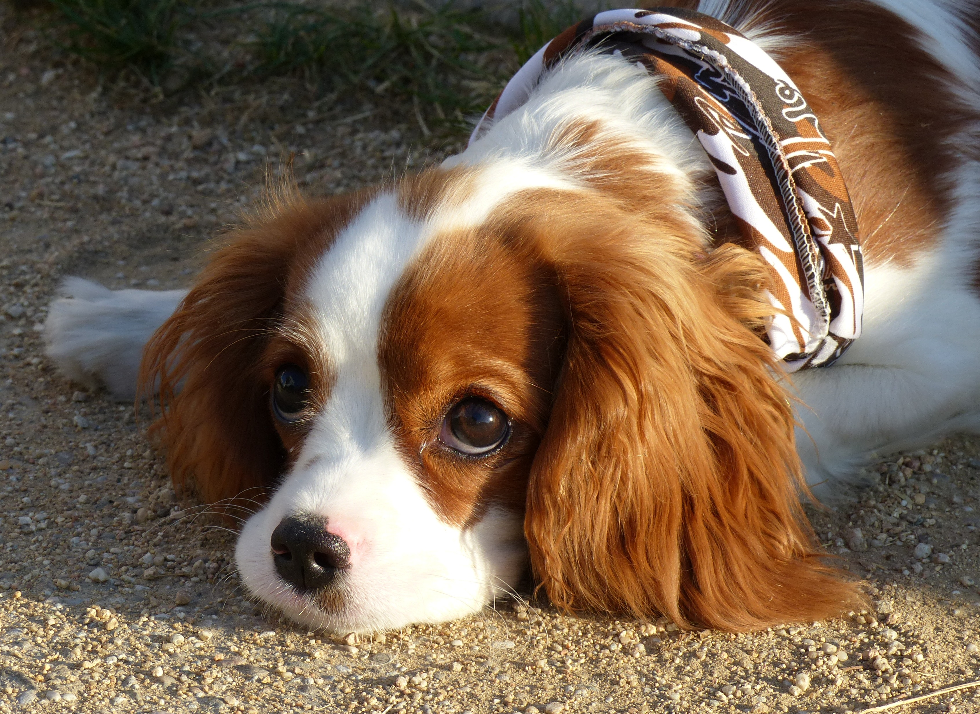 A ten-month-old female of the Cavalier King Charles Spaniel.